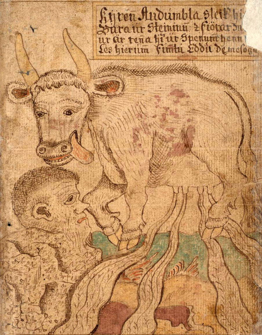 An illustration of the cow Auðumbla licking Búri out of a salty ice-block, from an Icelandic 18th century manuscript.